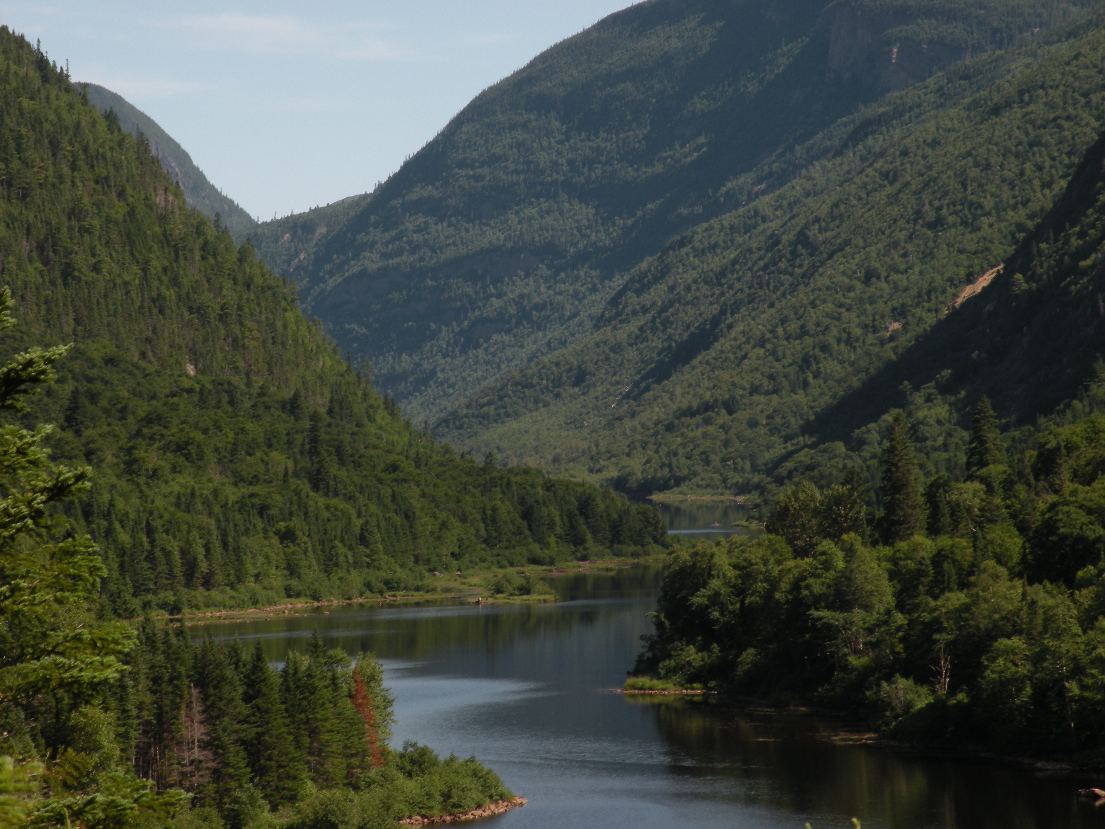 Malbaie River, at the Hautes-Gorges-de-la-Rivière-Malbaie national park.